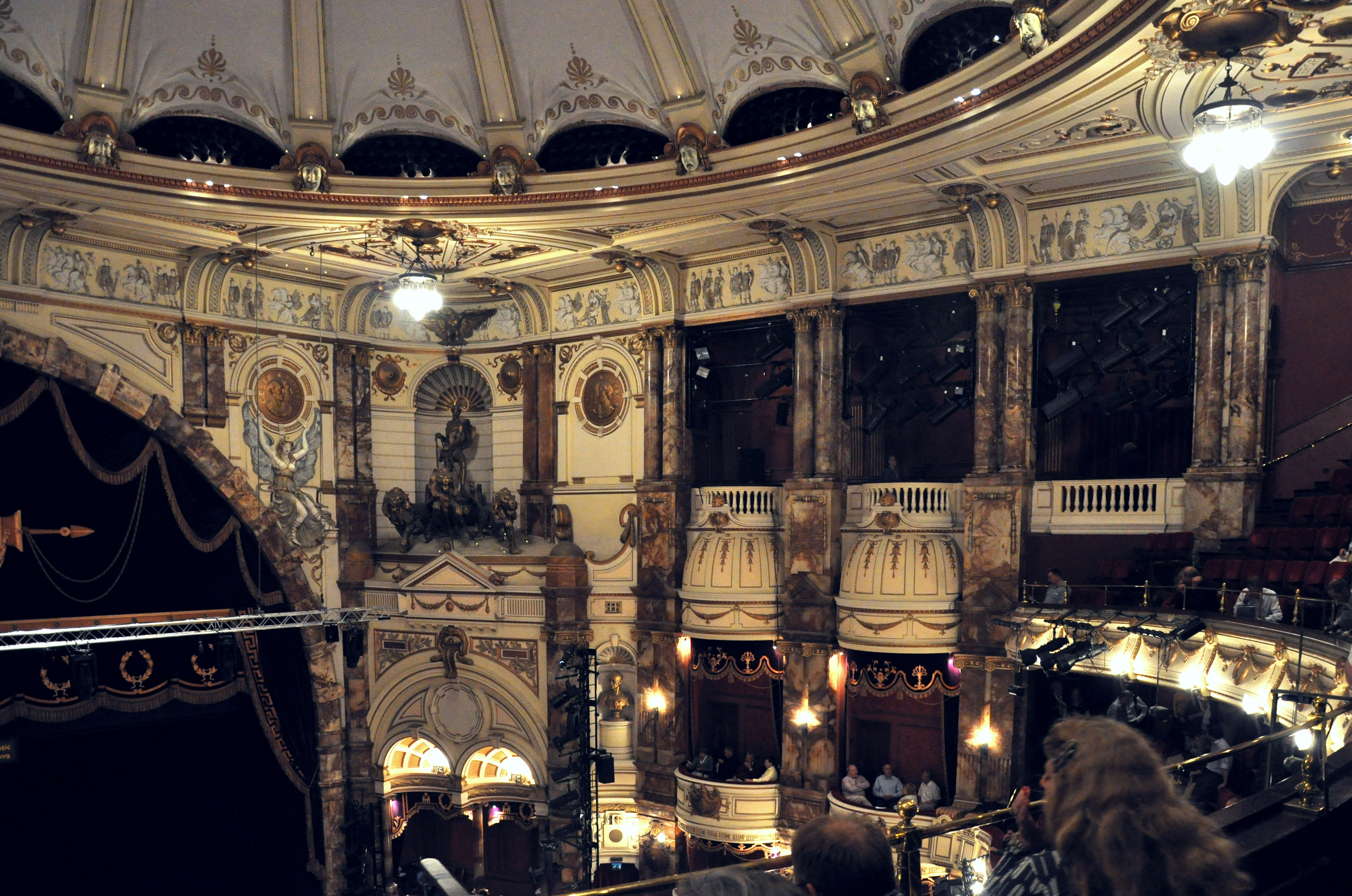 London, London Coliseum (English National Opera), auditorium